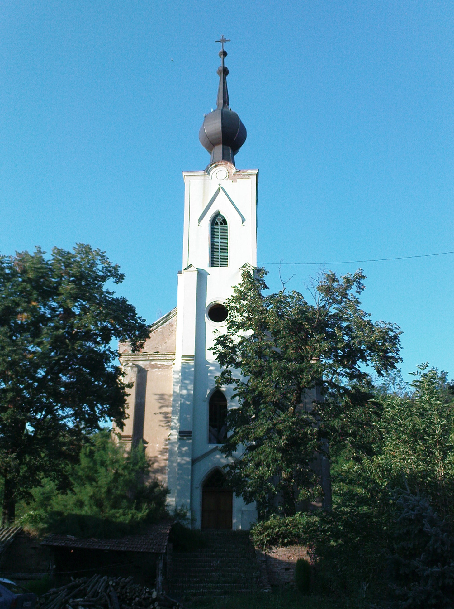 Protestant church of the Village Ág respectively Neudak in South-Transdanubia, Baranya, Hungary